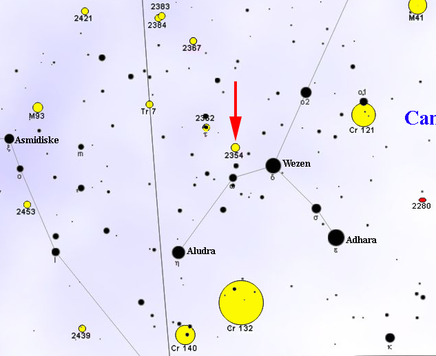 Map of NGC 2354